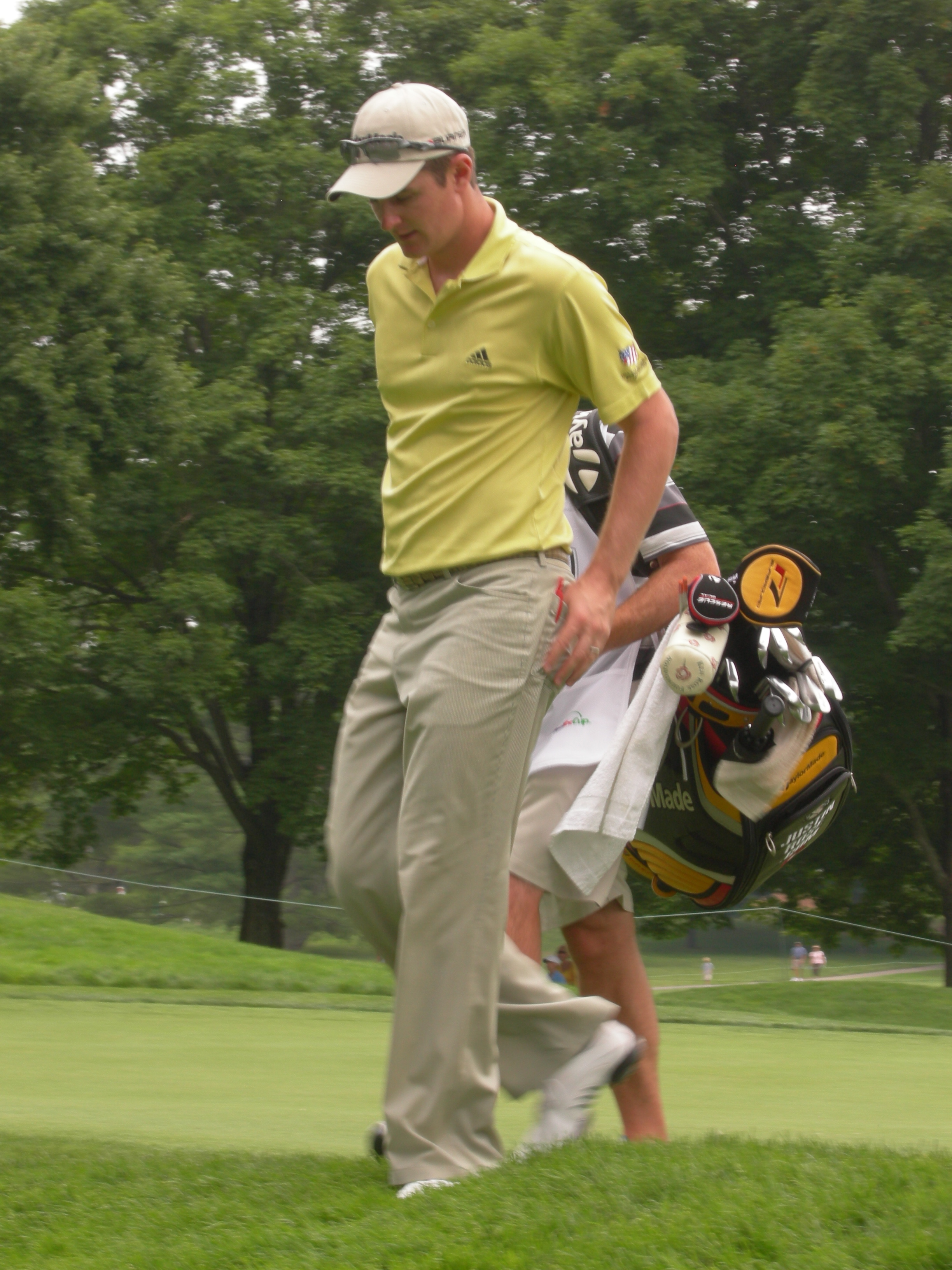 Justin Rose walking off the 4th green of the Congressional Country Club's Blue Course during the Earl Woods Memorial Pro-Am prior to the 2007 AT&T National tournament.